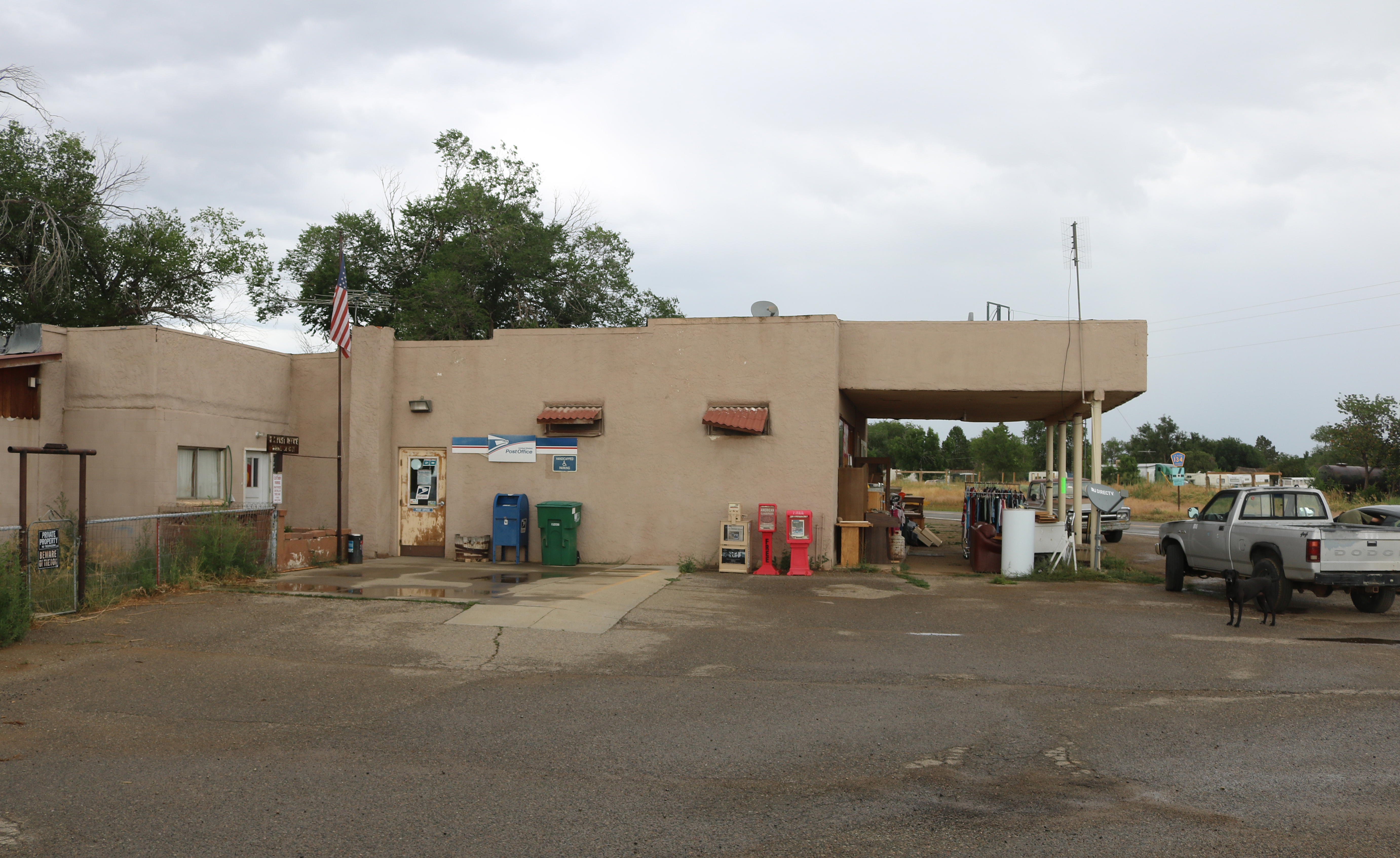 The post office in Marvel, Colorado. It is located in a former gas station at the intersection of county roads 100 and 134 in La Plata County.